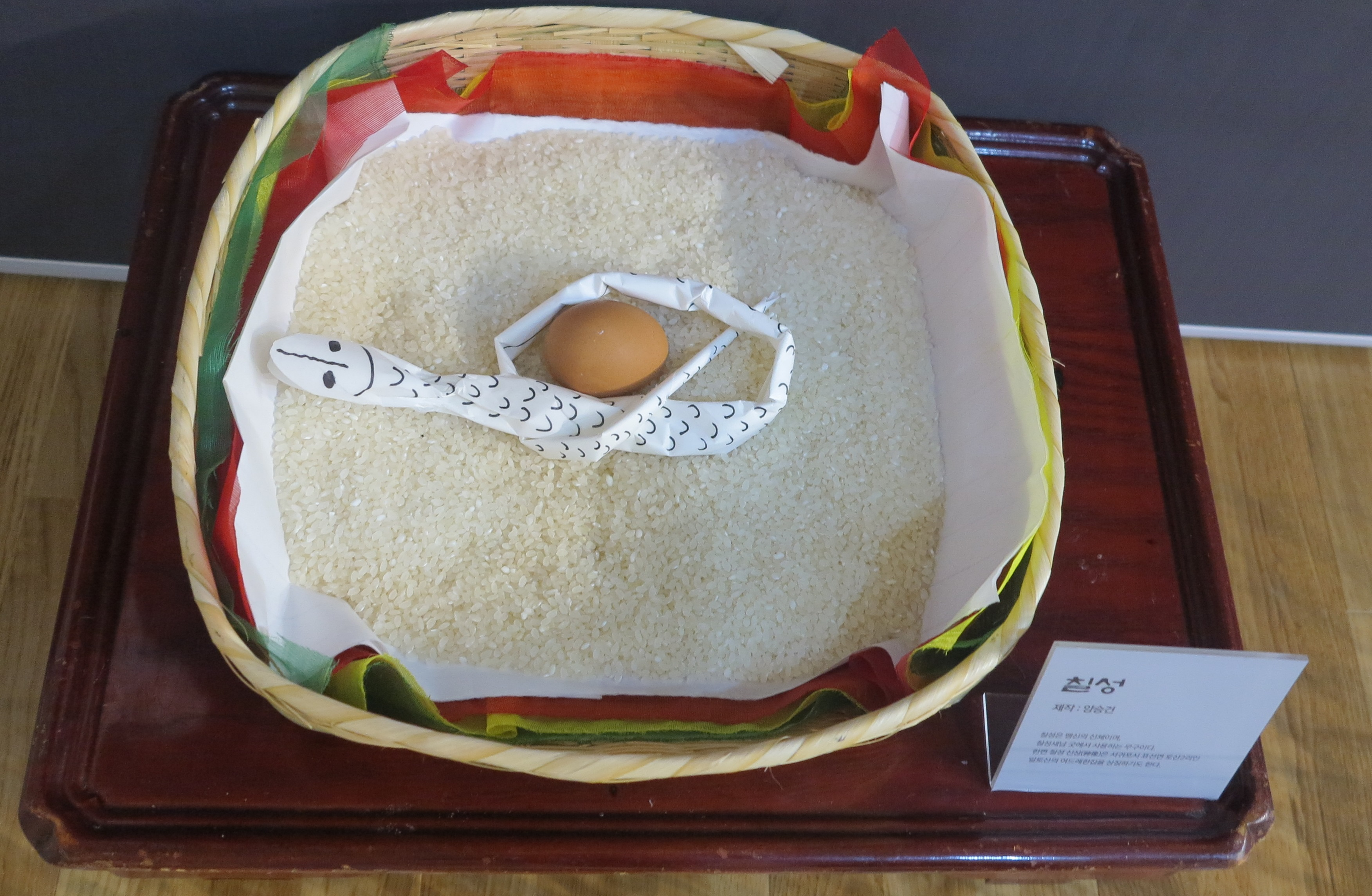 Gime (paper figurine) of a sacred snake at the Chilseong-saenam, a ritual in Jeju Island shamanism